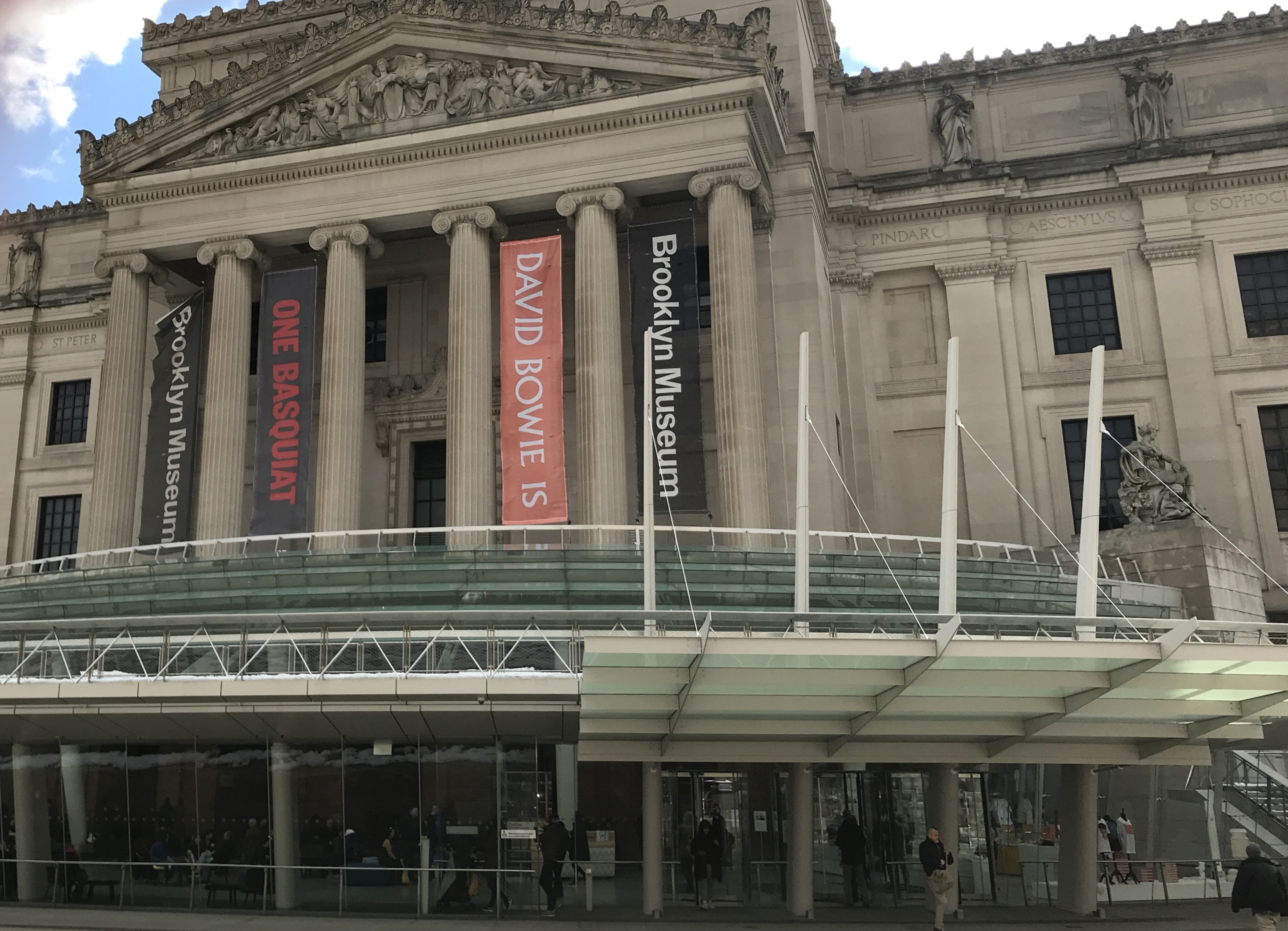 A picture showing the Brooklyn Museum in March 2018, when the David Bowie Is exhibition was showing there.